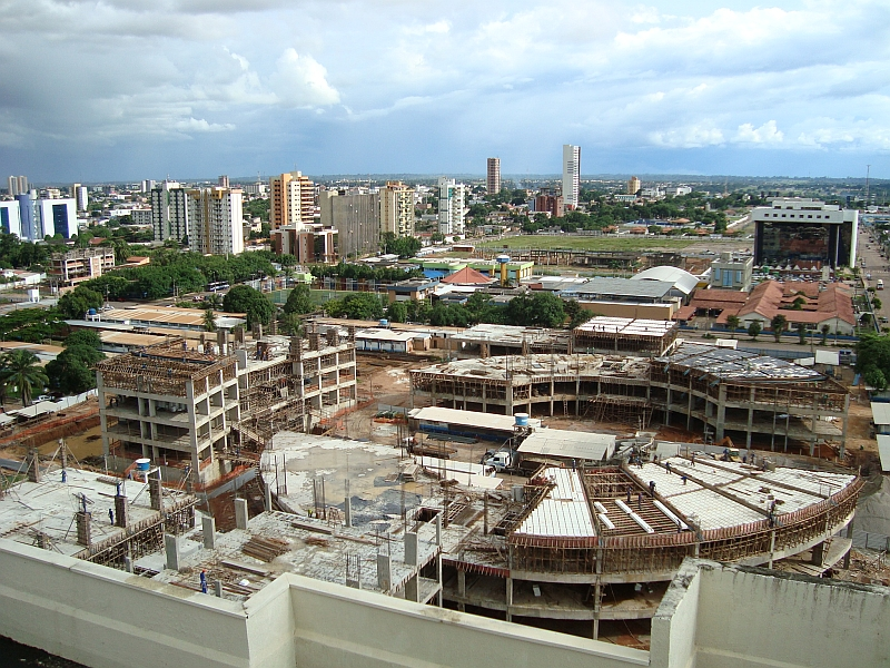 Porto Velho Skyline, Rondônia State, Brazil.